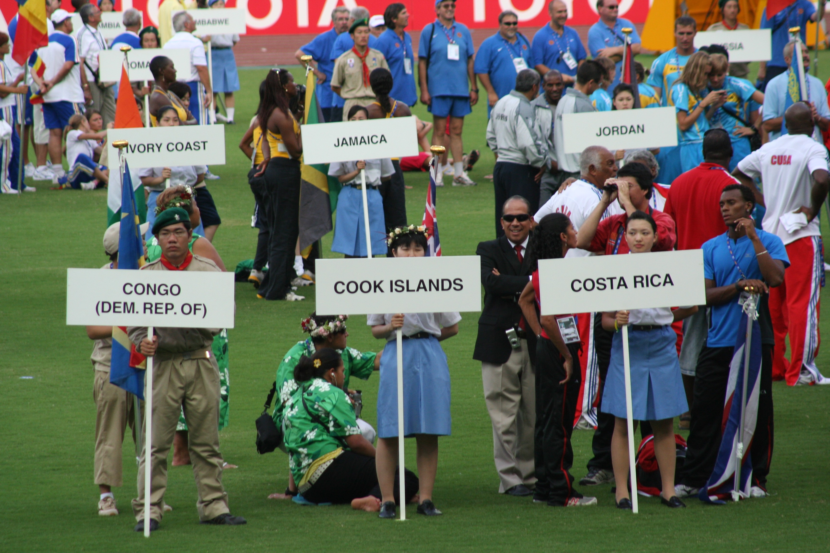 World Athletics Championships 2007 in Osaka - Some of the country delegations at the Opening Ceremony